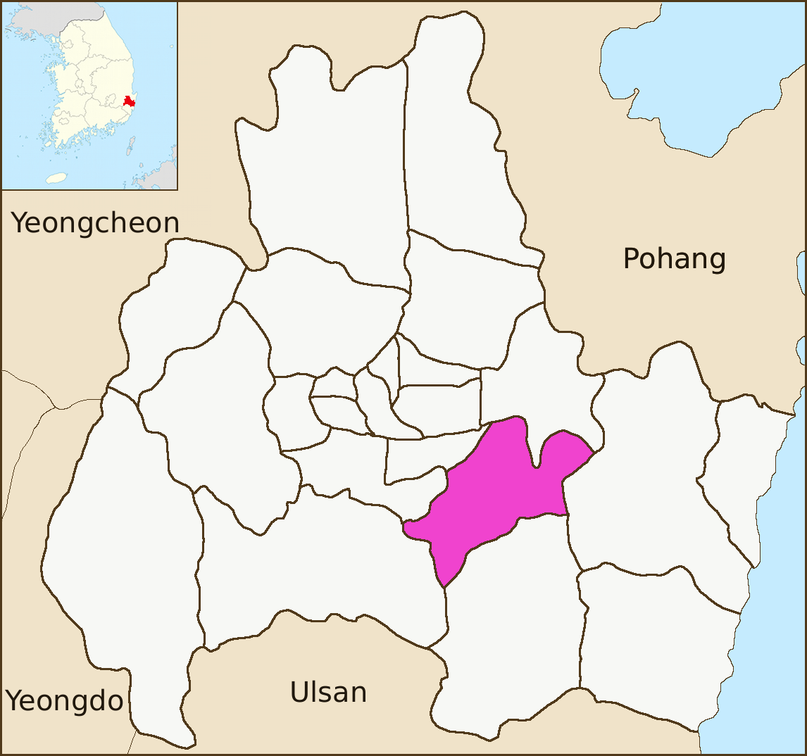 Map of Bulguk-dong, an administrative division of Gyeongju, South Korea. Created by User:Visviva, redrawn by Kokiri